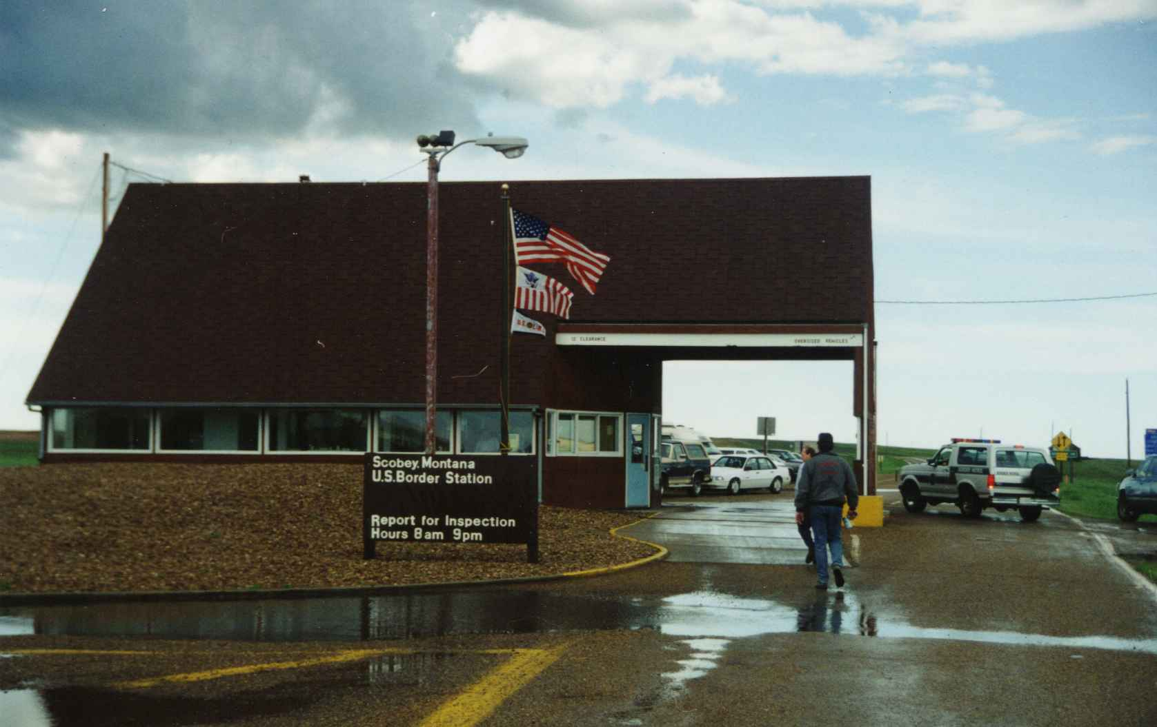 Scobey, Montana, Port of Entry